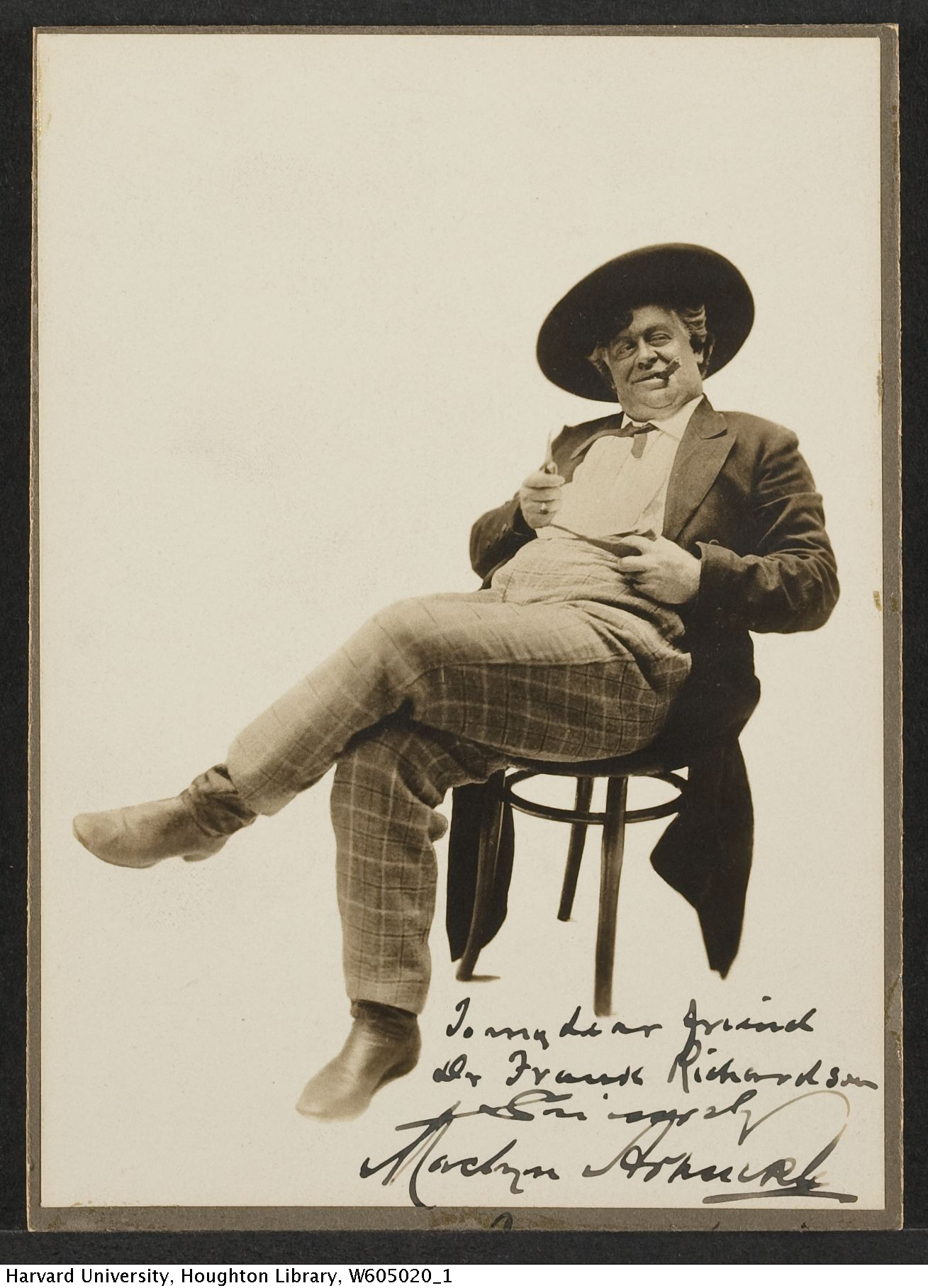 Cabinet card image of American stage and screen actor Macklyn Arbuckle (1866-1931), in character for County Chairman (staged in 1903, filmed in 1914), sitting in a chair. Original is signed by the actor. TCS 1.578, Harvard Theatre Collection, Harvard University